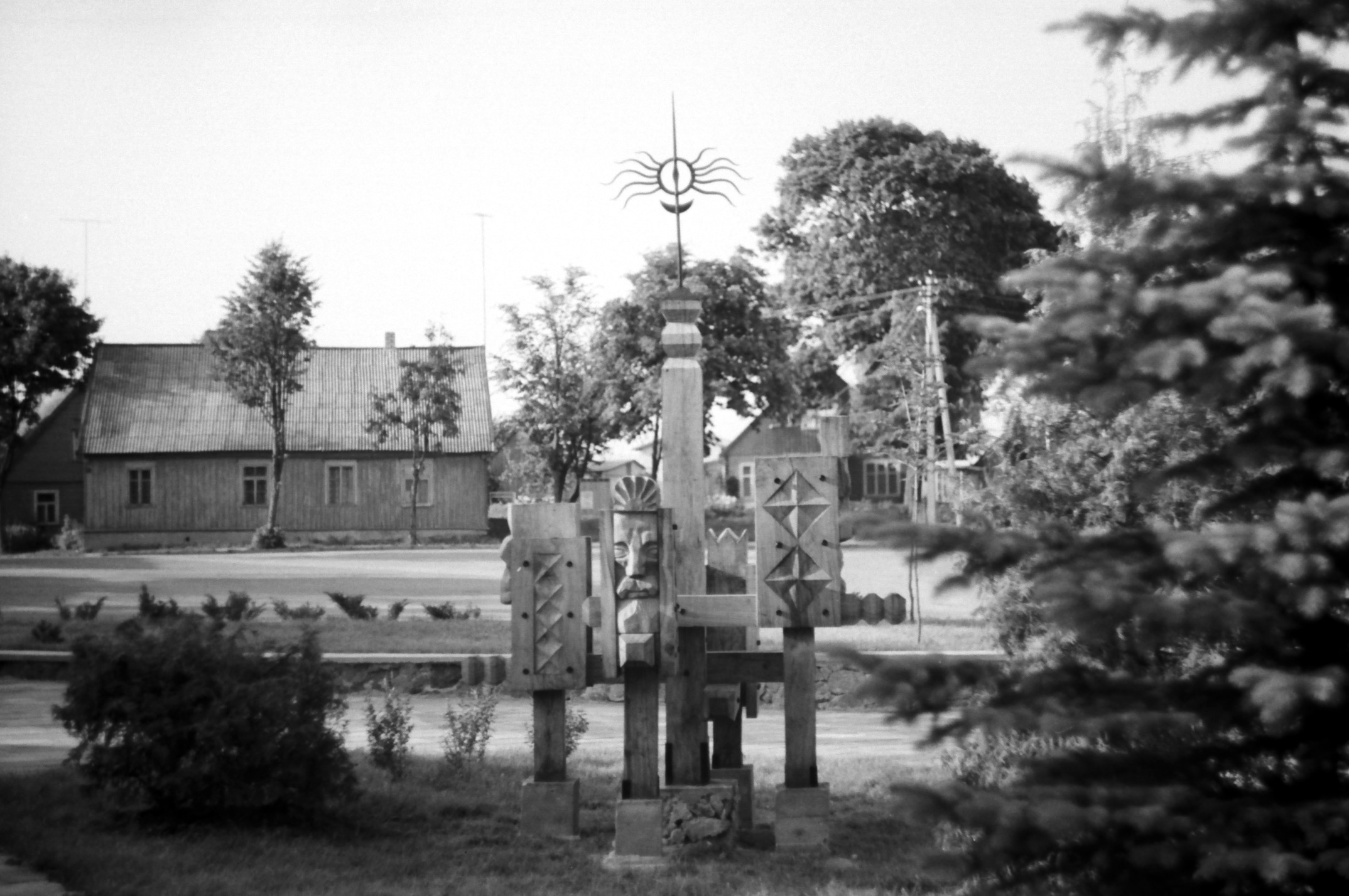 Alsėdžiai, 1986, Lithuania